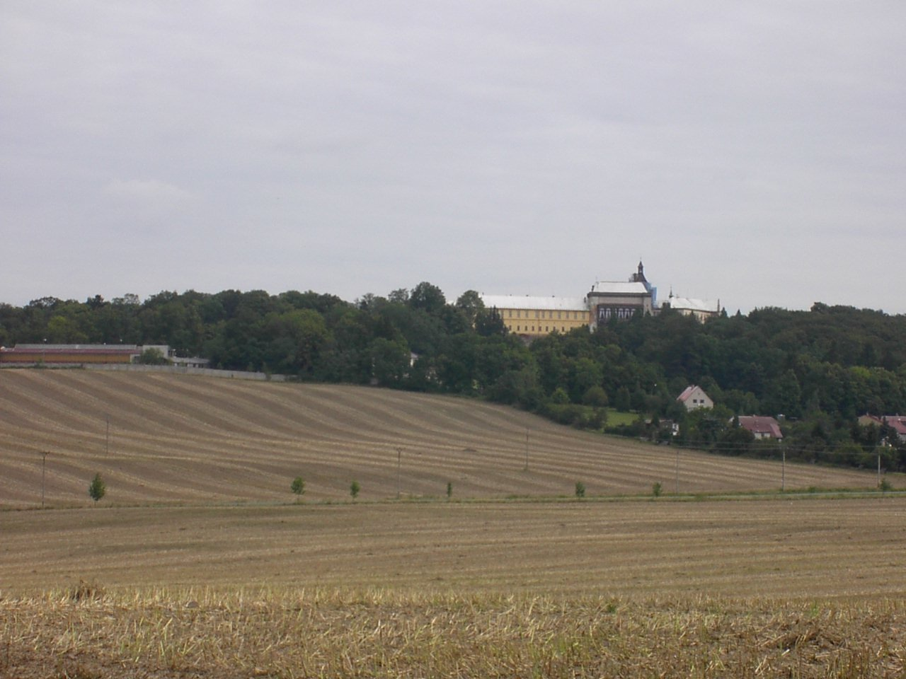 Chateau of Zbiroh, general view.